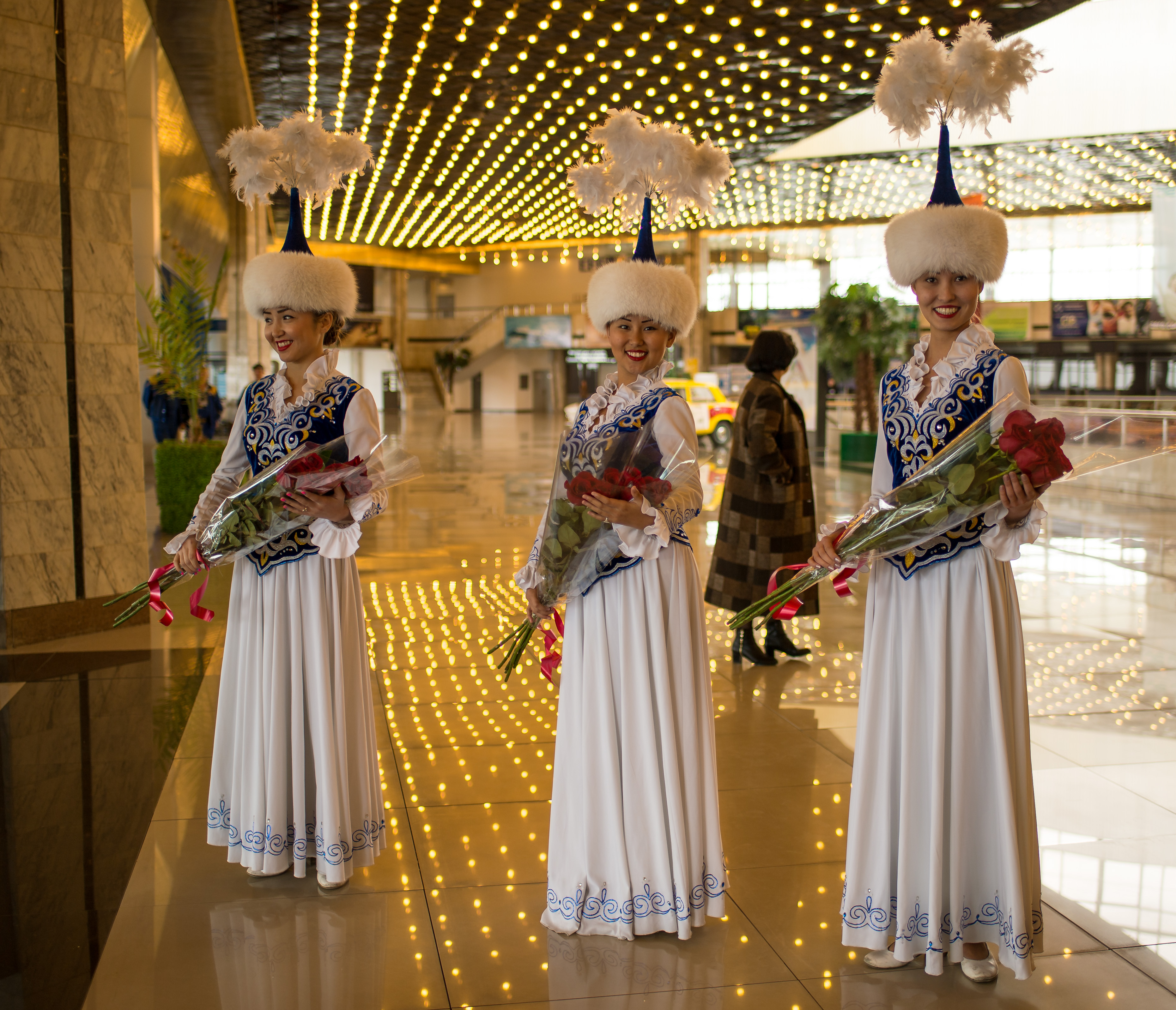 Women in ceremonial Kazakh dress prepare to welcome home Expedition 40 Commander Steve Swanson of NASA and Flight Engineers Alexander Skvortsov and Oleg Artemyev of the Russian Federal Space Agency (Roscosmos) at the Karaganda airport a few hours after the crew landed in their Soyuz TMA-12M spacecraft near the town of Zhezkazgan, Kazakhstan on Thursday, Sept. 11, 2014. Swanson, Skvortsov and Artemyev returned to Earth after more than five months onboard the International Space Station where they served as members of the Expedition 39 and 40 crews.